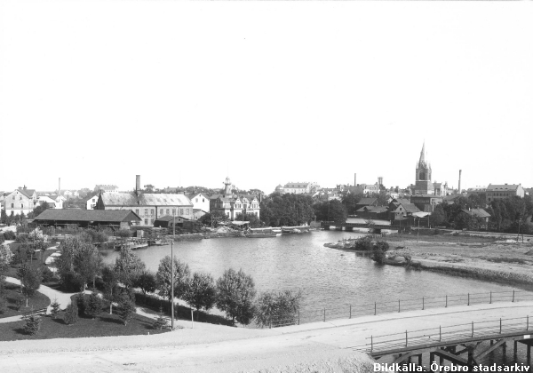 The park "Hagaparken", Örebro, Sweden